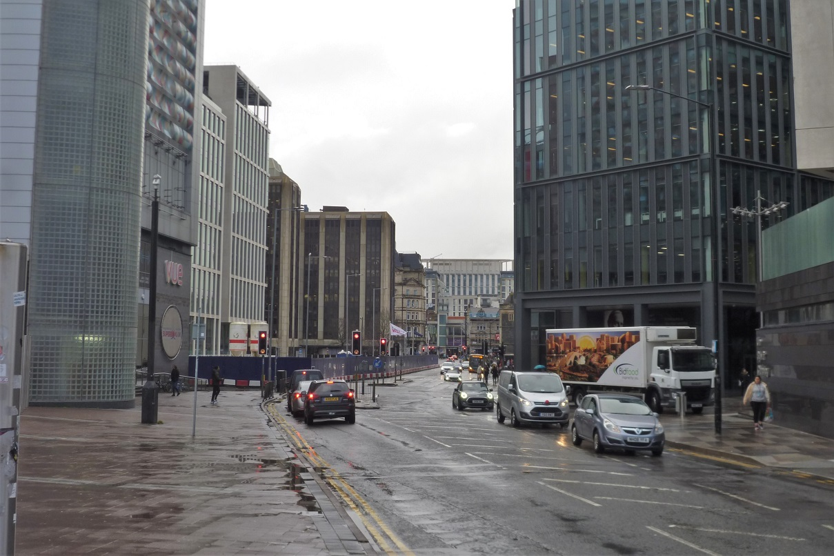 Wood Street, Cardiff, in December 2019, the new Central Square in front of Tŷ William Morgan is yet to be completed